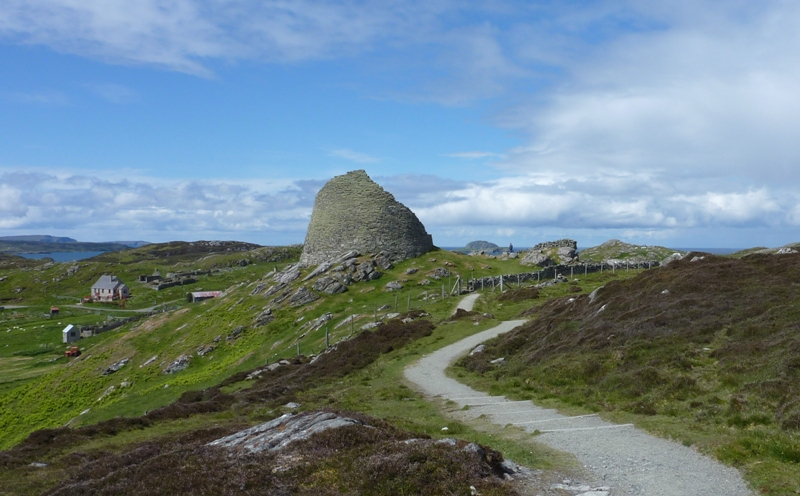 Dun Carloway, Lewis, Scotland